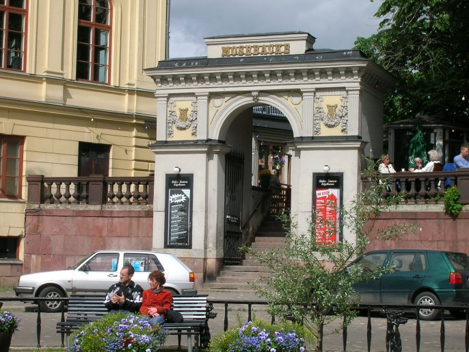 Entrance to Mosebacke Terrass at Mosebacke torg, Stockholm, Sweden